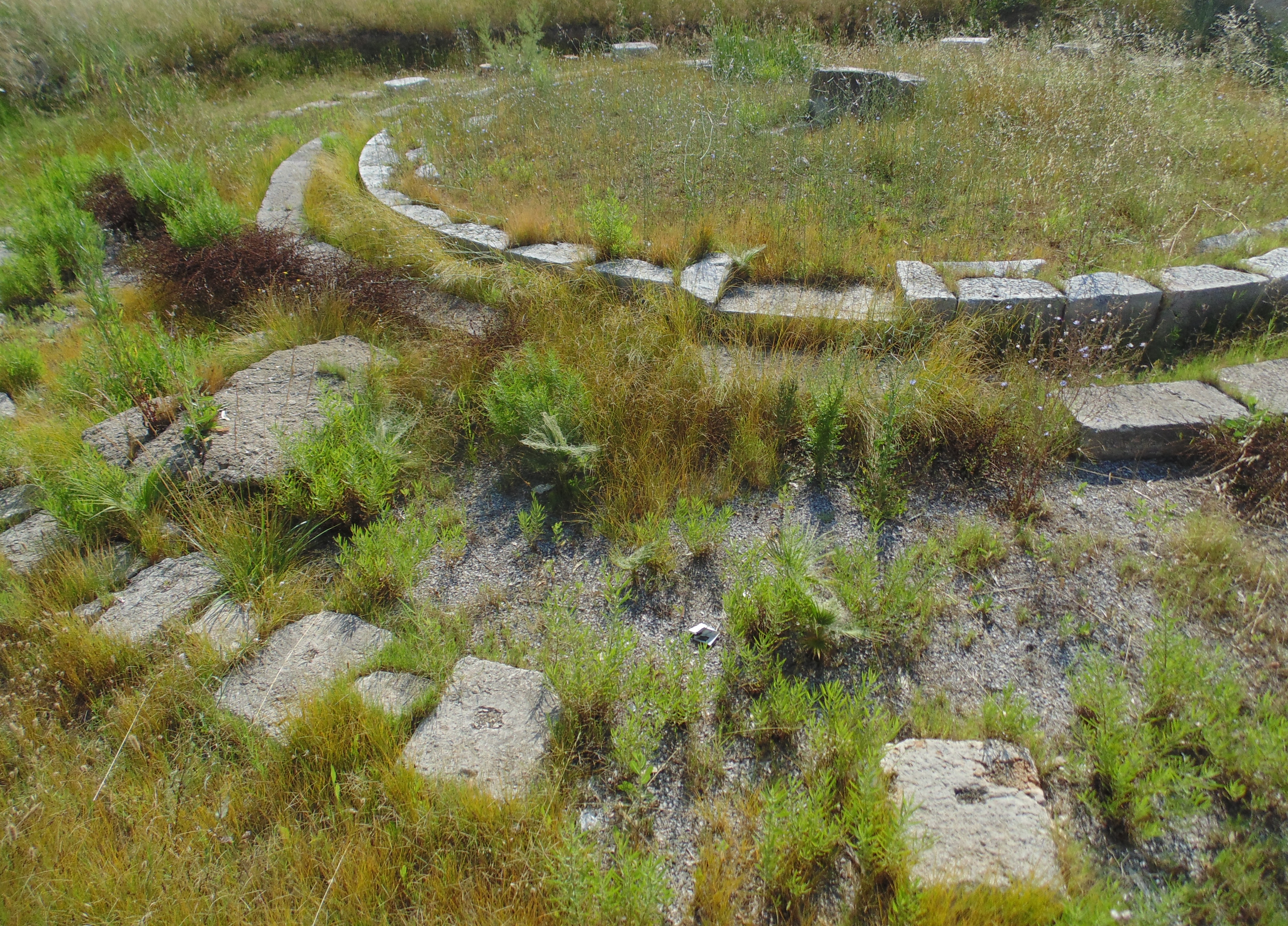 Tolos